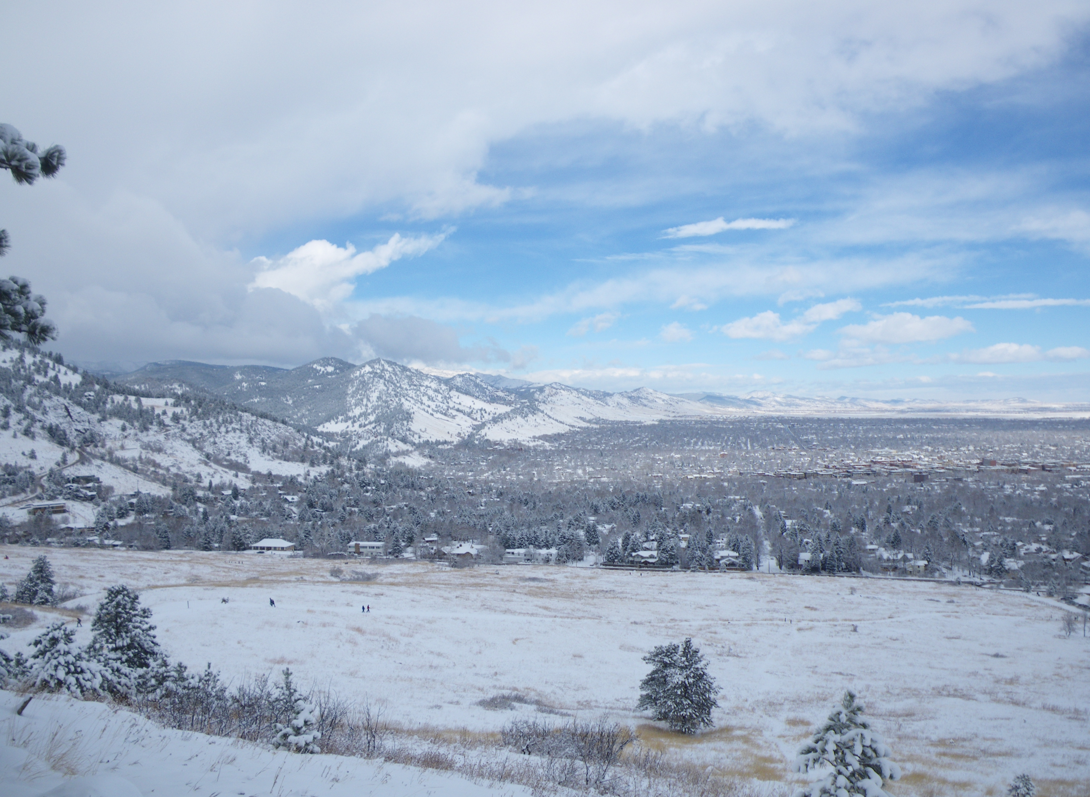 Boulder after a snowfall. 06 February 2011.